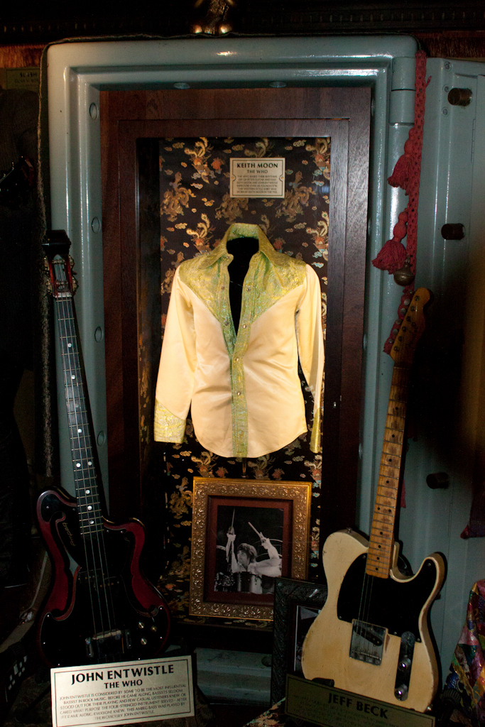 displayed at the Hard Rock Cafe in London.